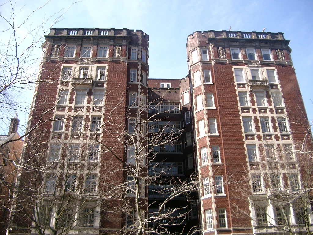 Upper floors detail of the Ambassador Apartments at 1200 Southwest 6th Avenue, Portland, Oregon, United States The building is listed on the US National Register of Historic Places. NRHP reference number 79003738